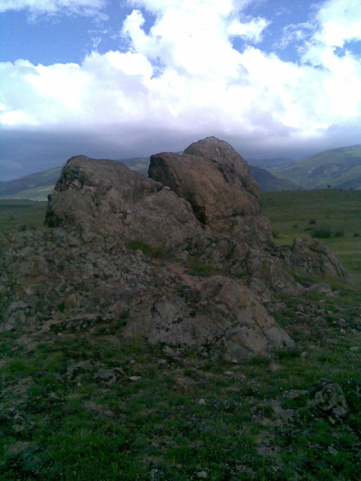 Near village Orizari, Sliven District